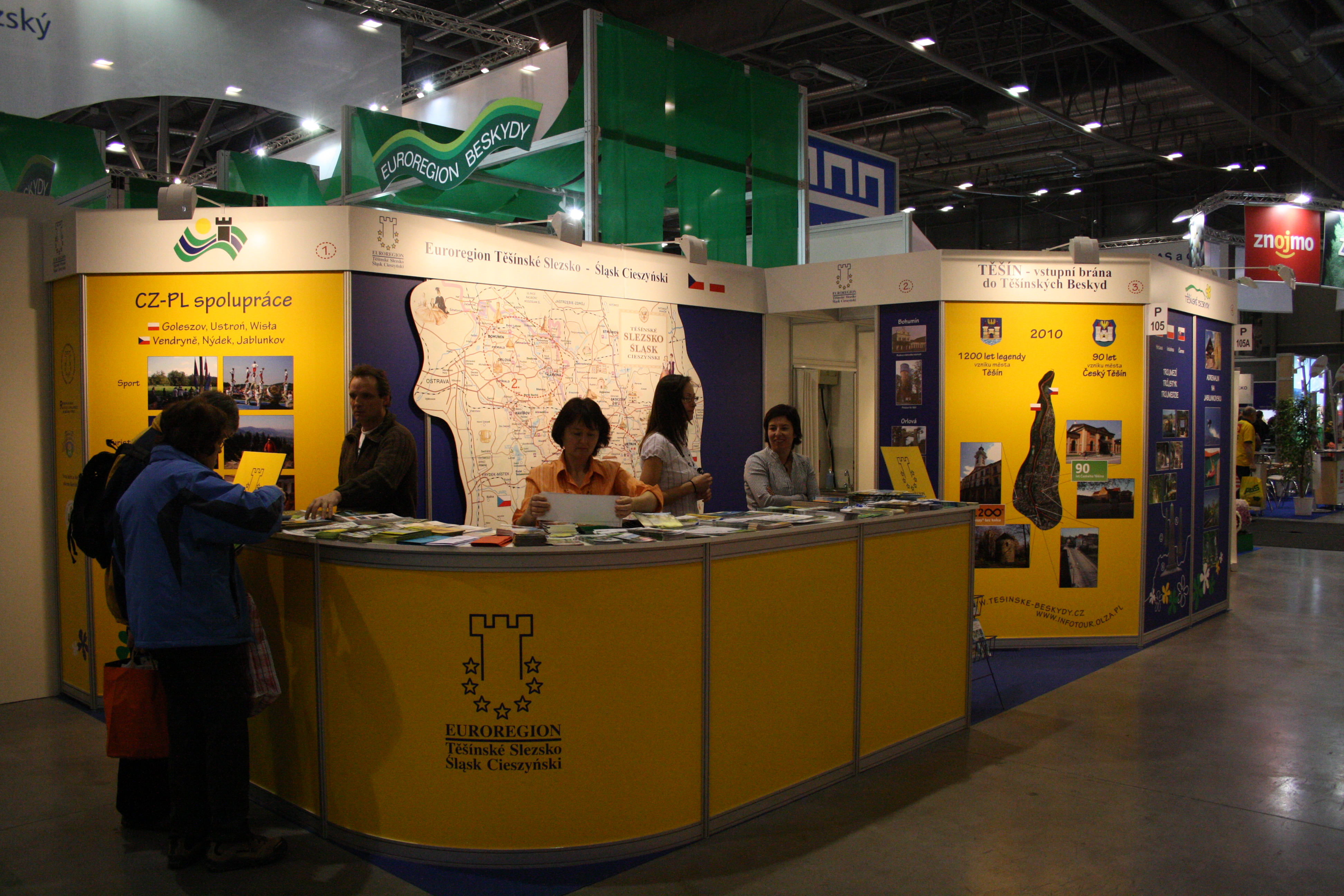 Presentation of various touristic destinations of Czech Republic.